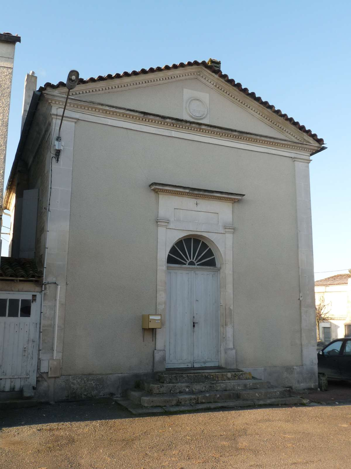 former temple of Juillac-le-Coq, Charente, SW France